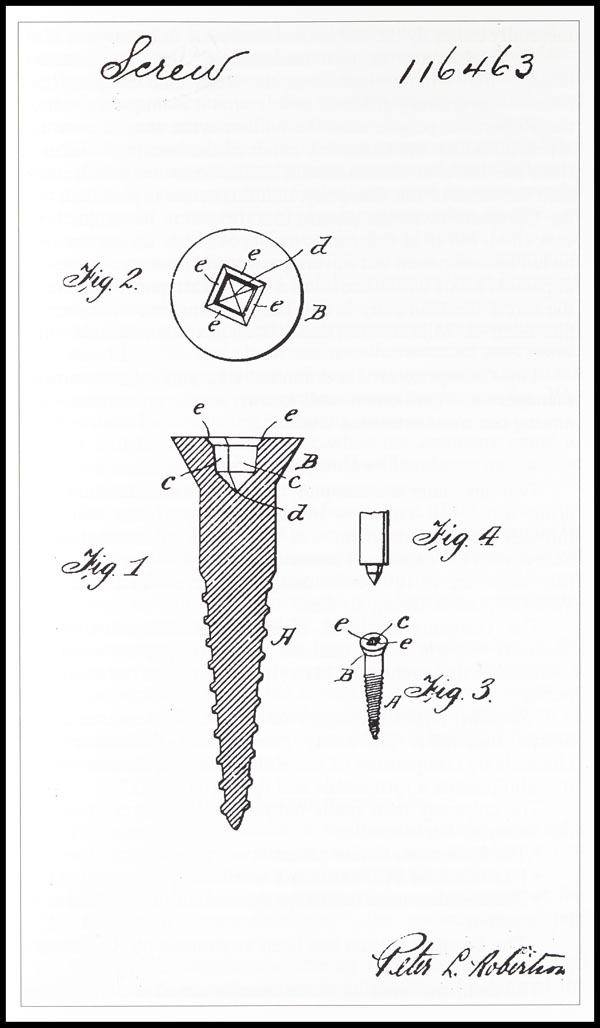 Page from a patent for the Robertson screw, 1909